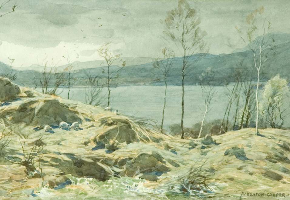 An April Morn, Windermere by Alfred Heaton Cooper, watercolor, 25.4 x 30 cm.